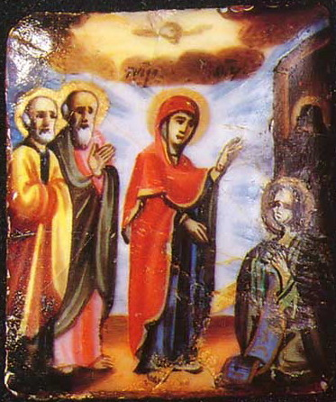 Appearance of Our Lady of St. Sergius of Radonezh